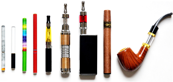 A photograph of various electronic nicotine delivery systems